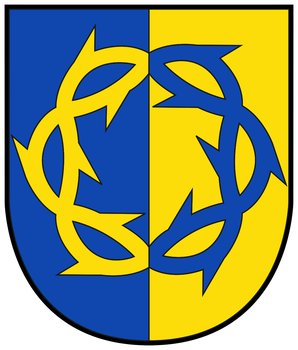 Coat of arms Erl.